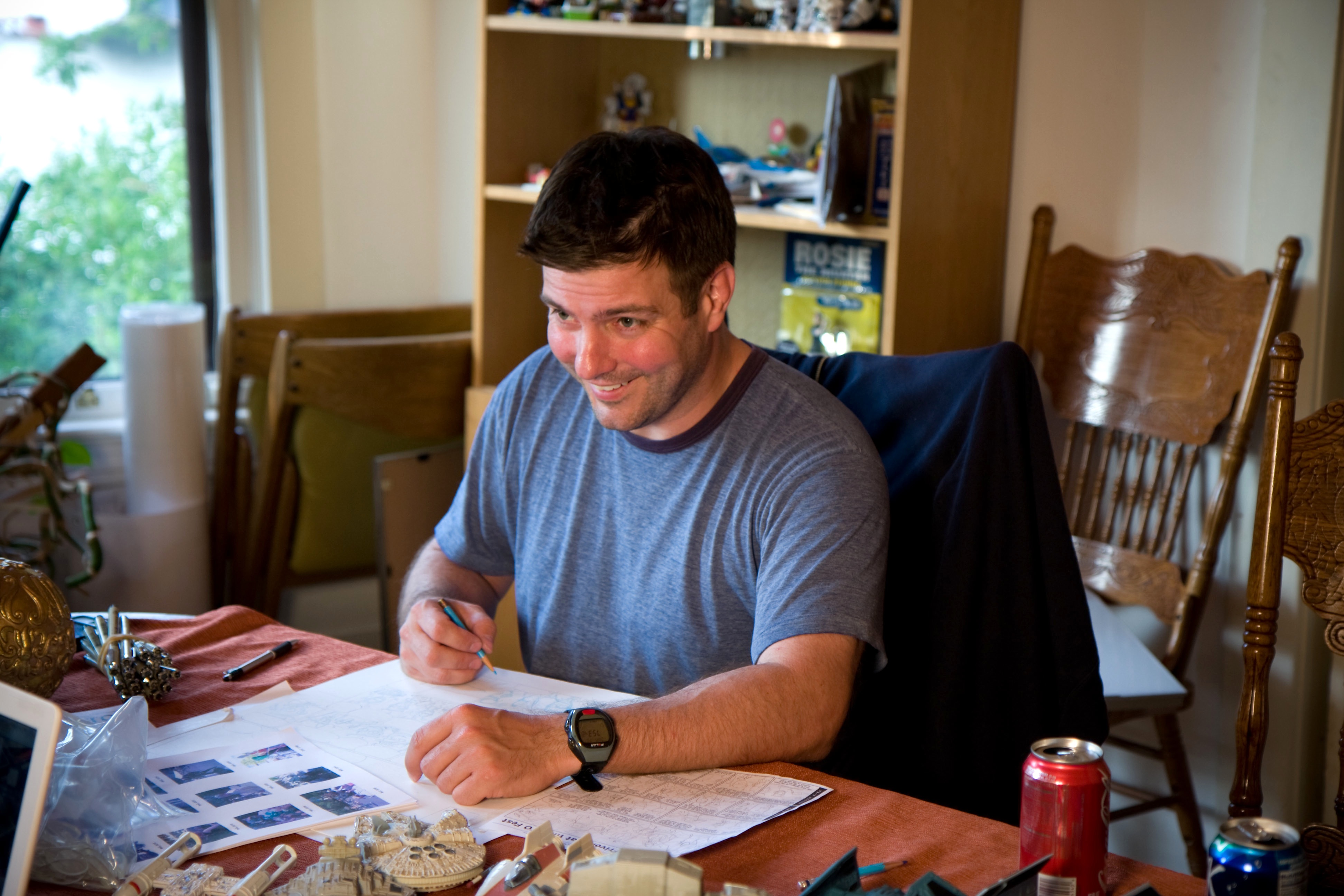 Oregon-based cartoonist and author Mike Russell. (Photographer's caption on Flickr: Mike was busy drawing his Culture Pulp comic strip.)